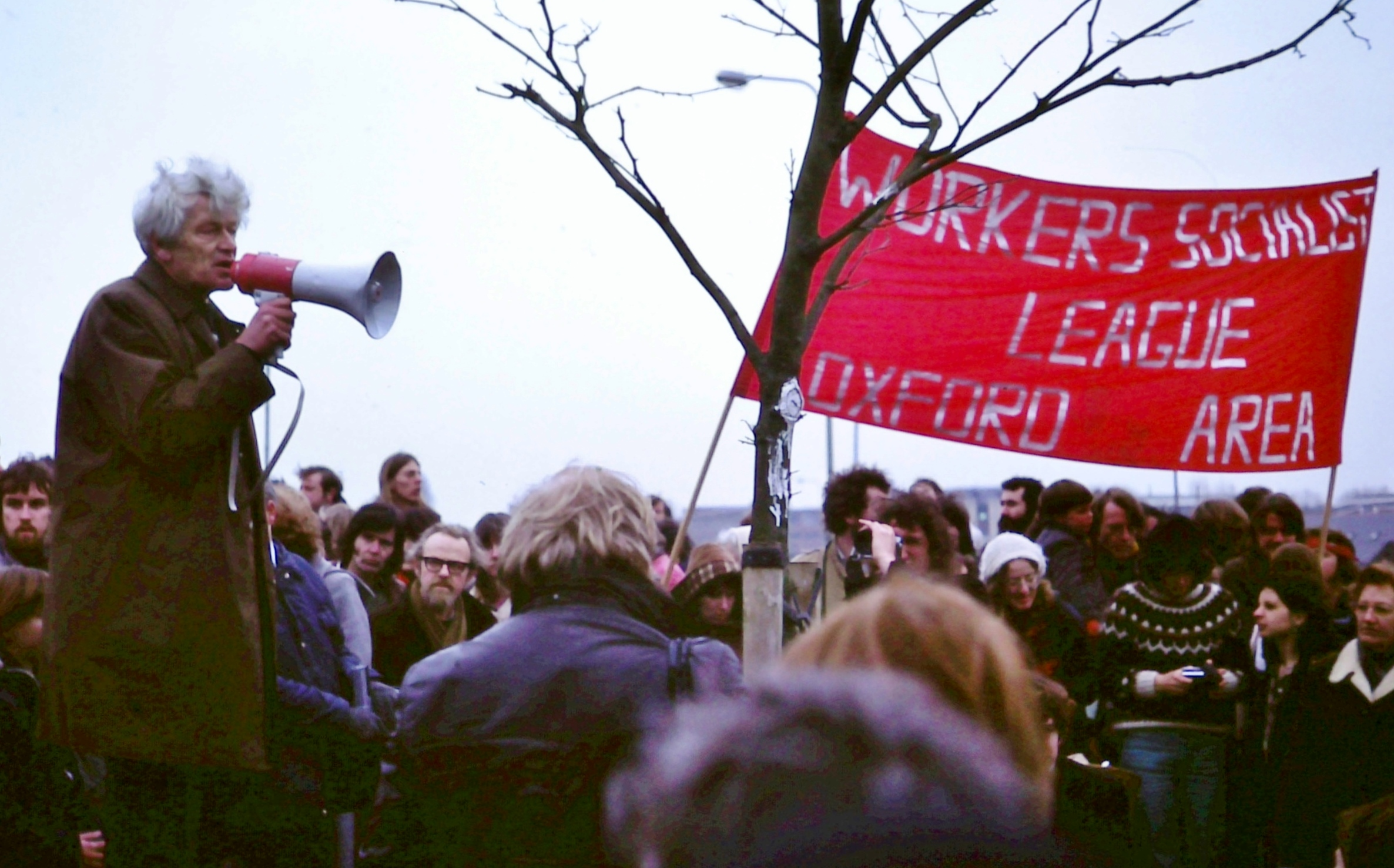 E P Thompson addresses anti-nuclear weapons rally, Oxford, England, 1980